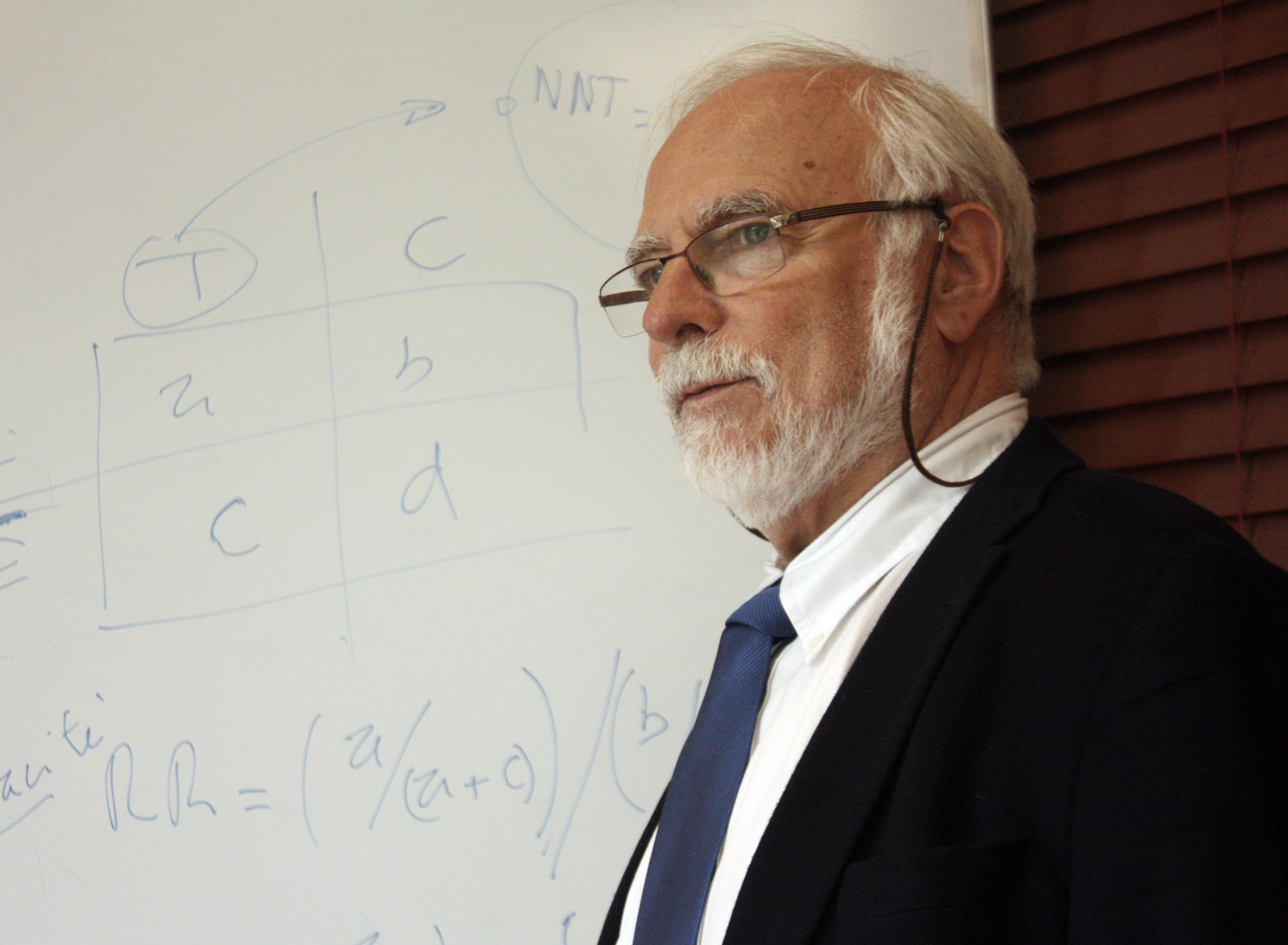 Pr Jean Pierre Boissel, during a public conference about personalized medicine